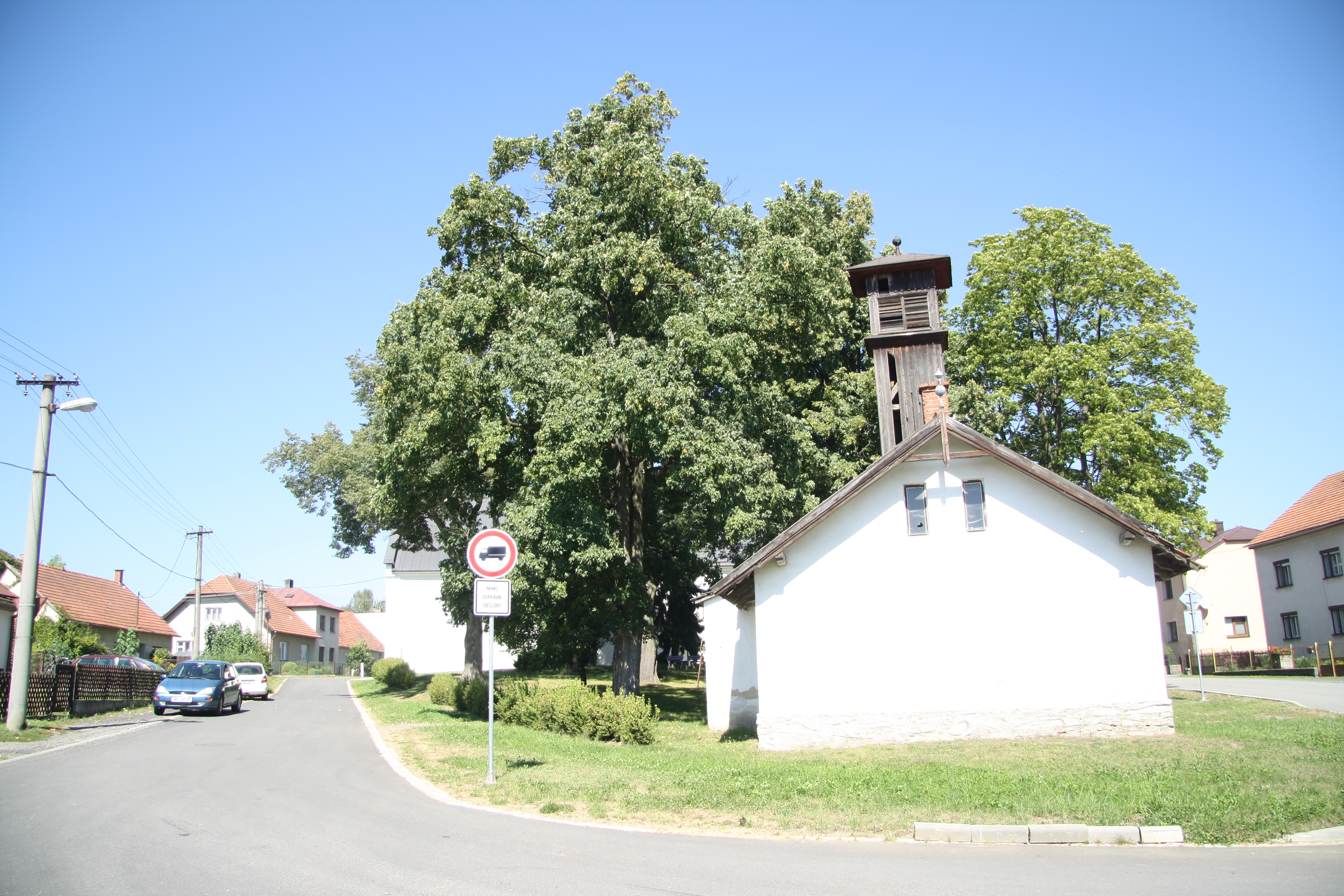 Village square in Horní Bory, Bory, Žďár nad Sázavou District.